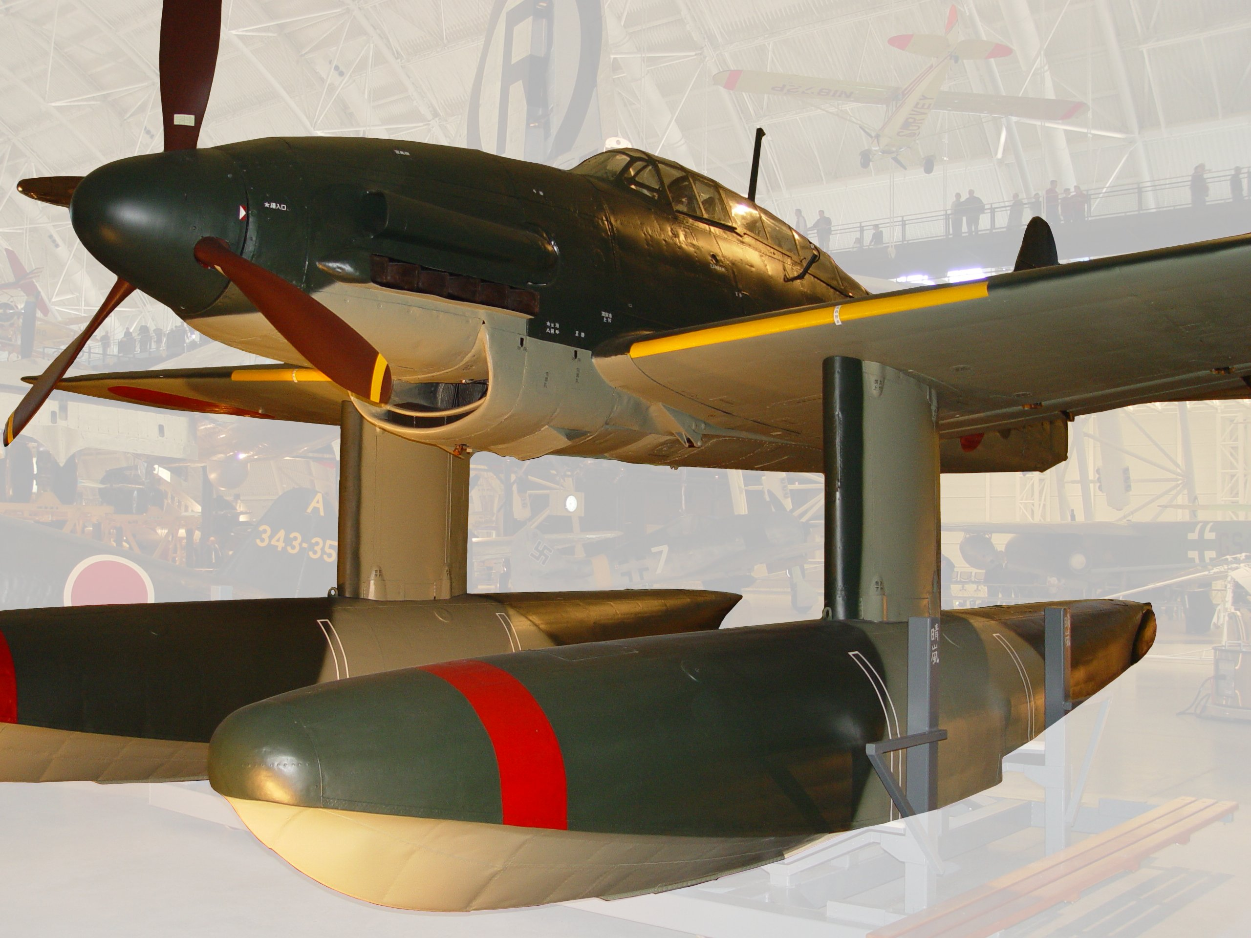 The only surviving Aichi M6A1 Seiran.